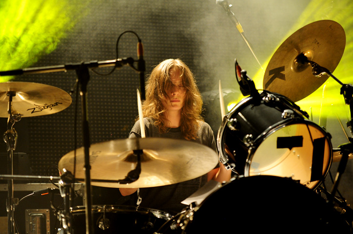 Splendour In The Grass Sideshow